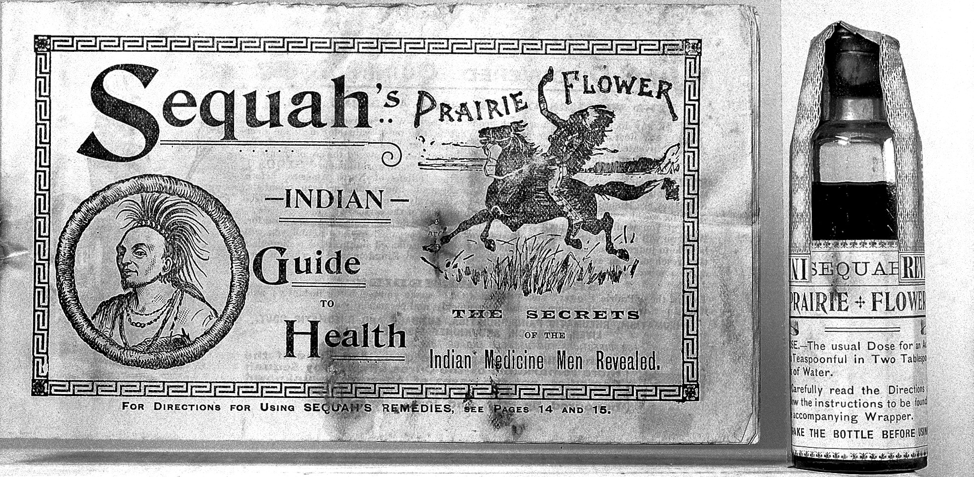 Advertisement for 'Sequah's Indian Prairie Flower' medicine. Wellcome Images Keywords: proprietary medicines; Advertisements